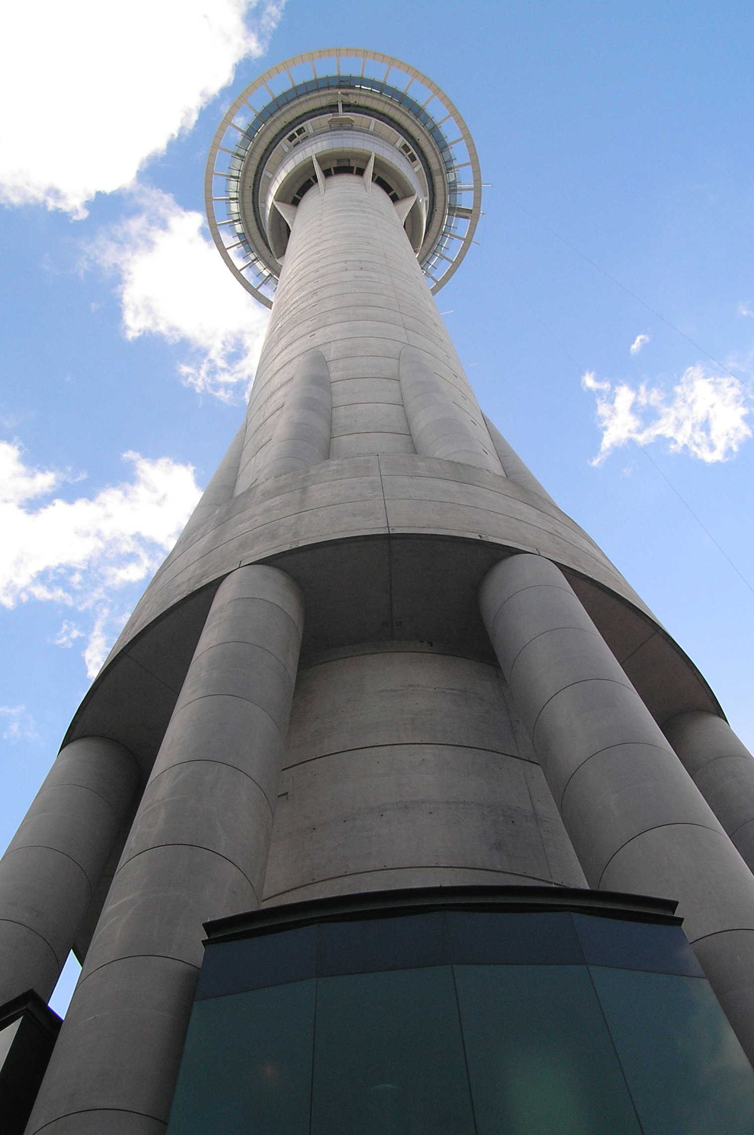 Sky Tower (Auckland, New Zealand) from its bottom.